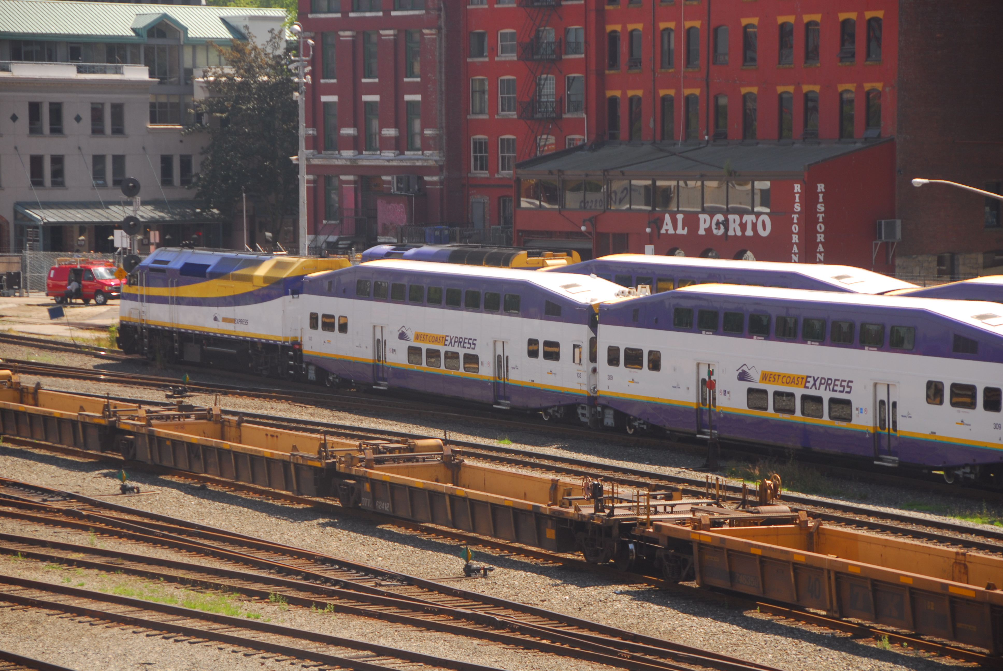 TransLink West Coast Express trains at Waterfront Station in Vancouver, British Columbia, Canada